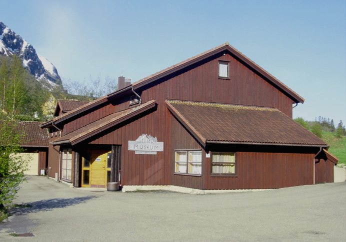 Tindemuseet, Åndalsnes, in Norway